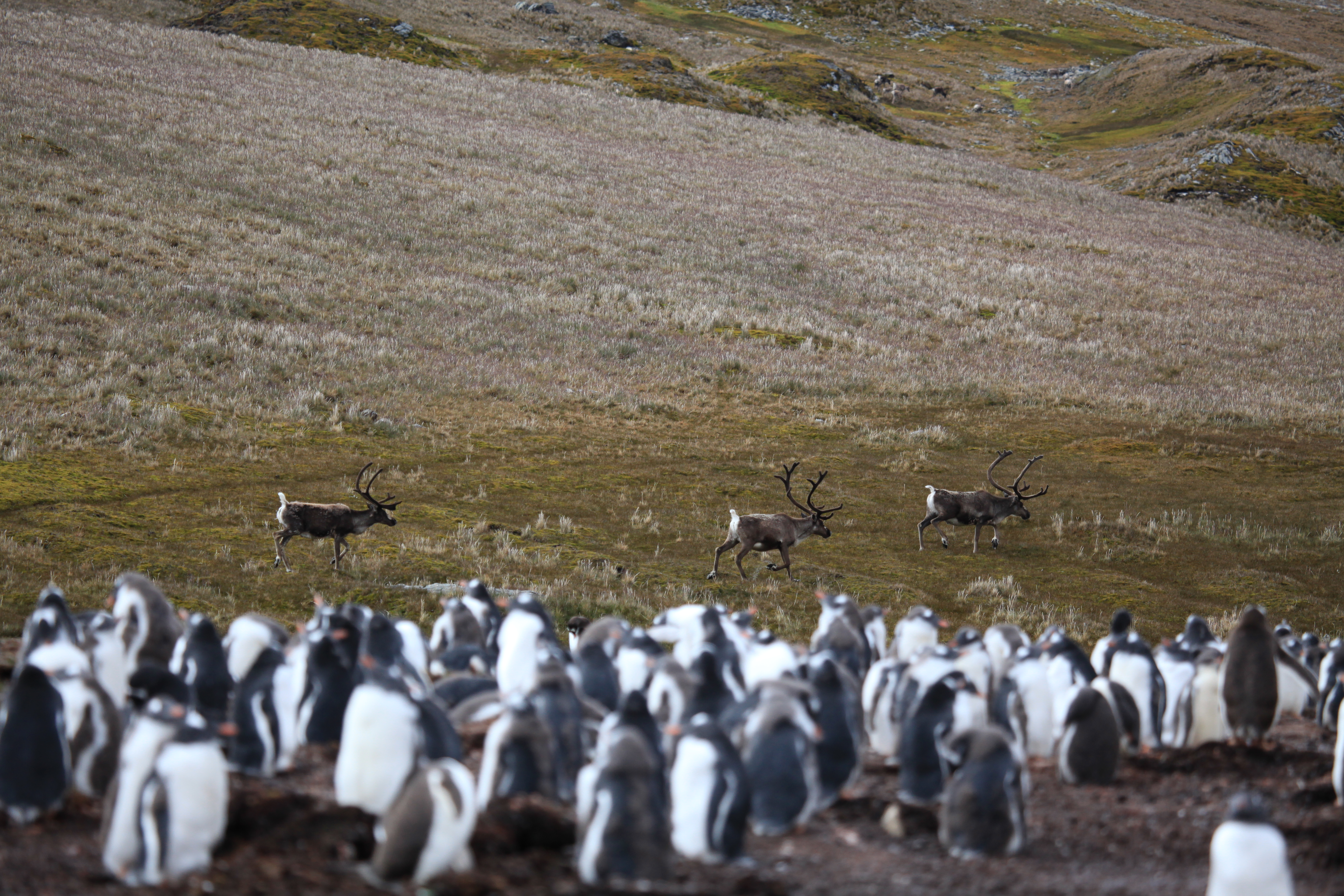 At Godthul, South Georgia.